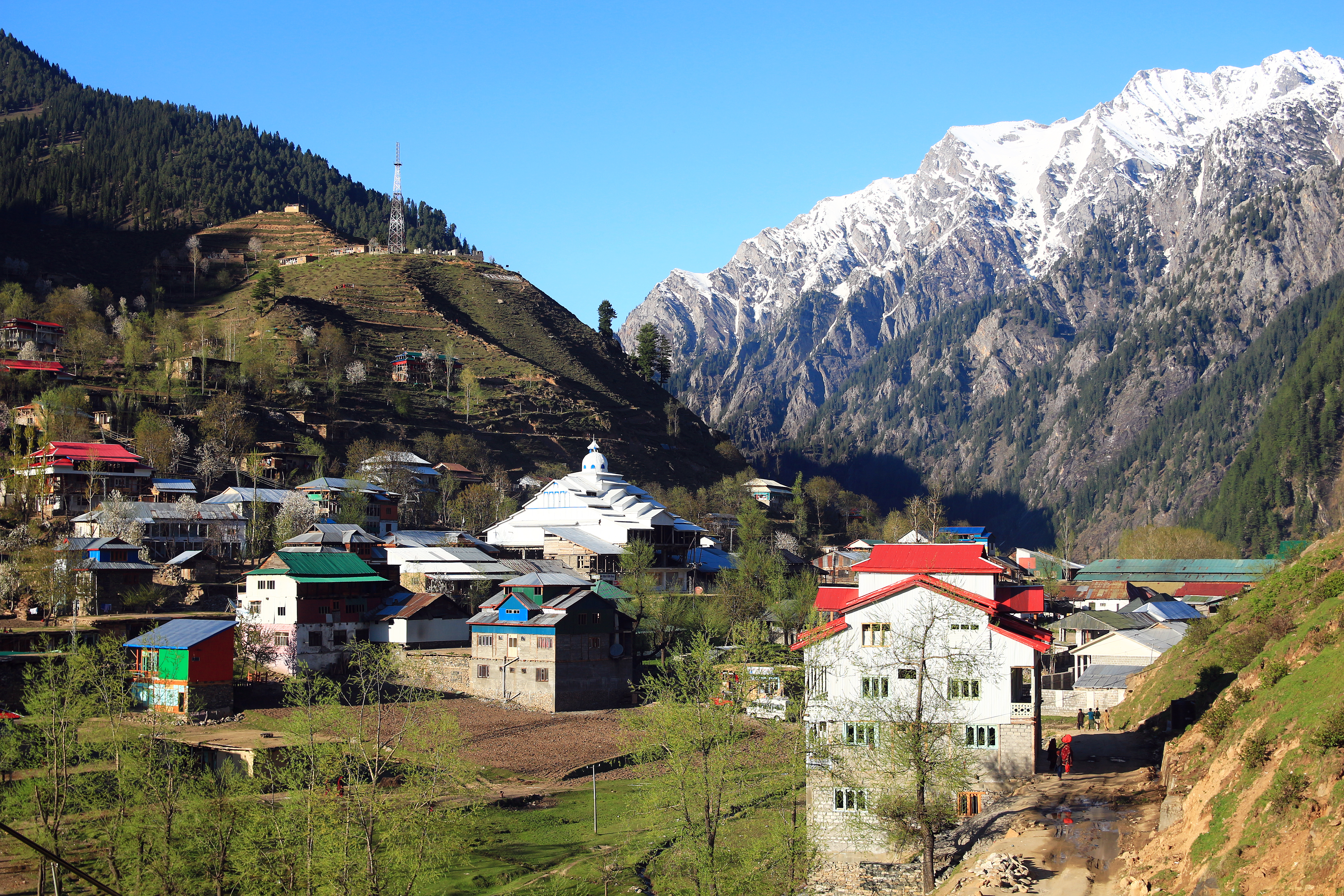 Kel is a village in Neelam Valley, Azad Kashmir, Pakistan. It is located 155 kilometers (96 mi) from Muzaffarabad at the altitude of 6,879 feet (2,097 m) feet.